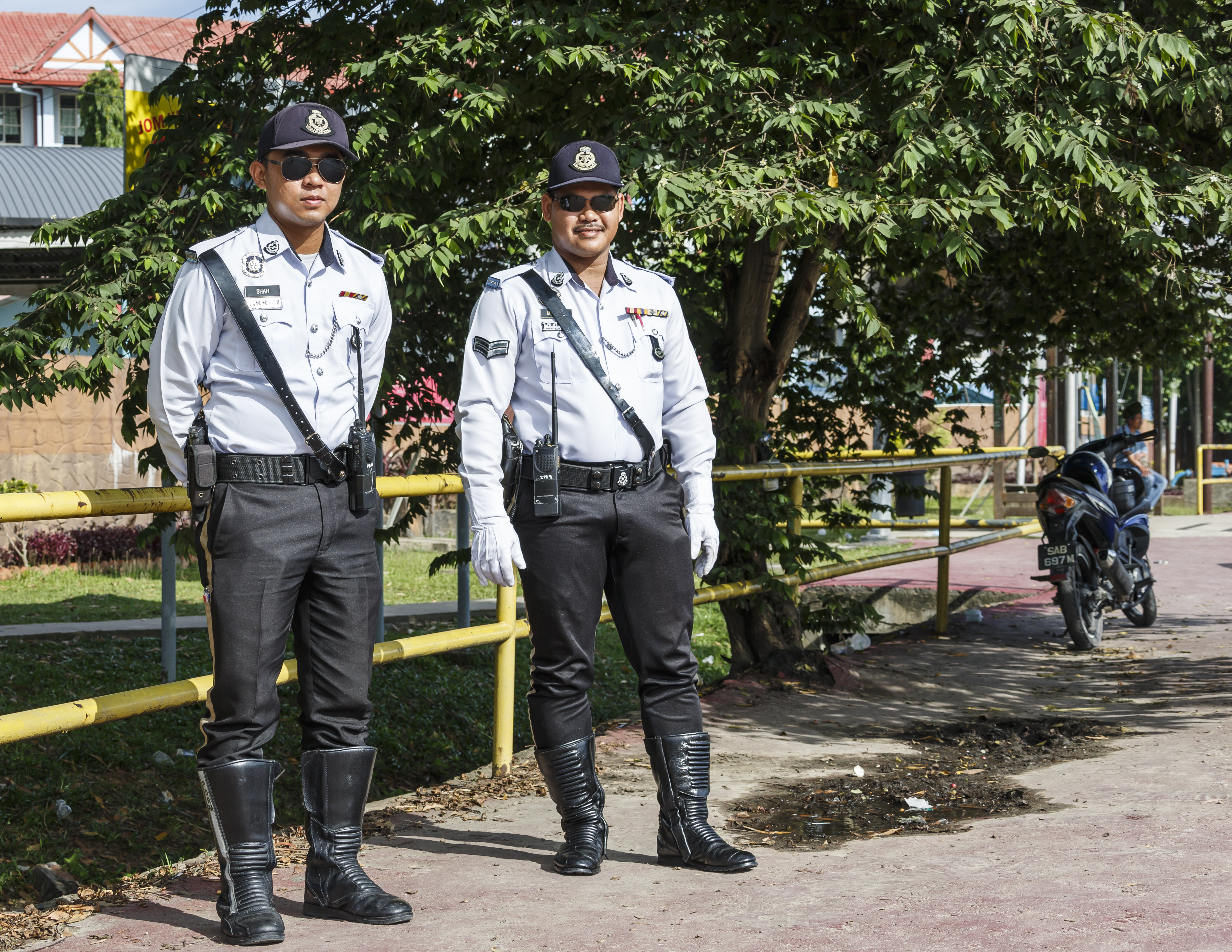 Penampang, Sabah: Two police officers of PDRM Sabah standing watch for safety at Kaamatan Festival 2014